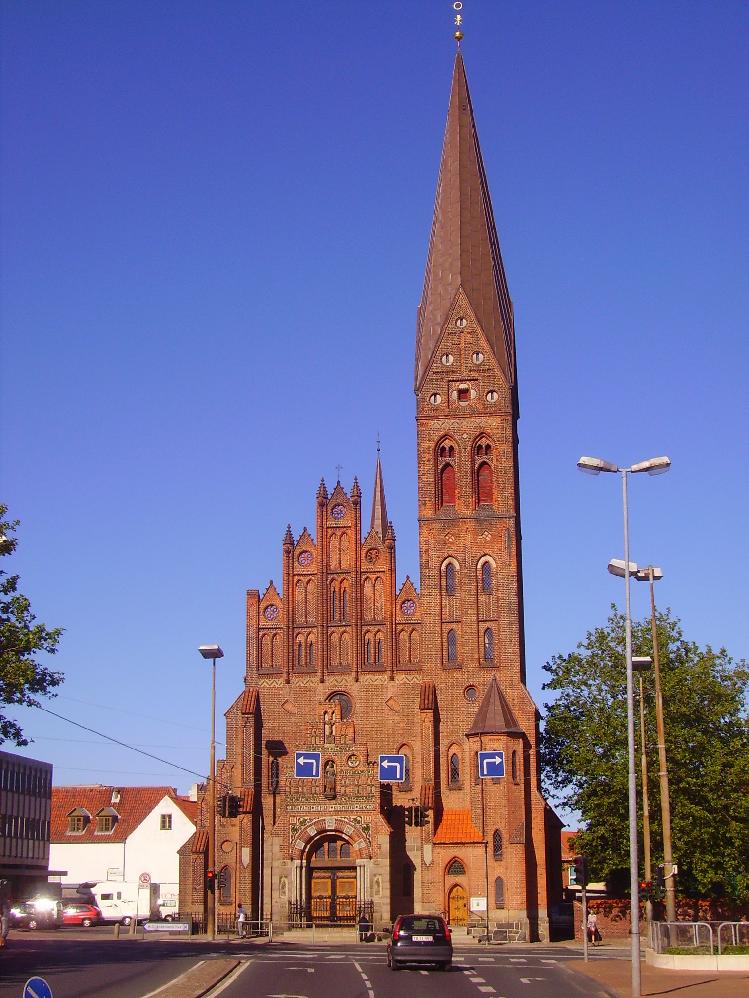 St. Albani, Odense